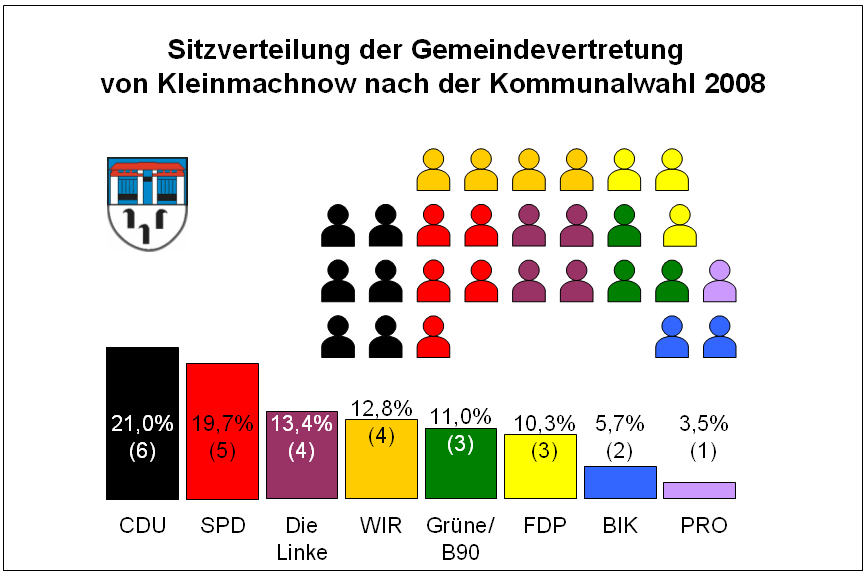 local elections Kleinmachnow Germany 2008